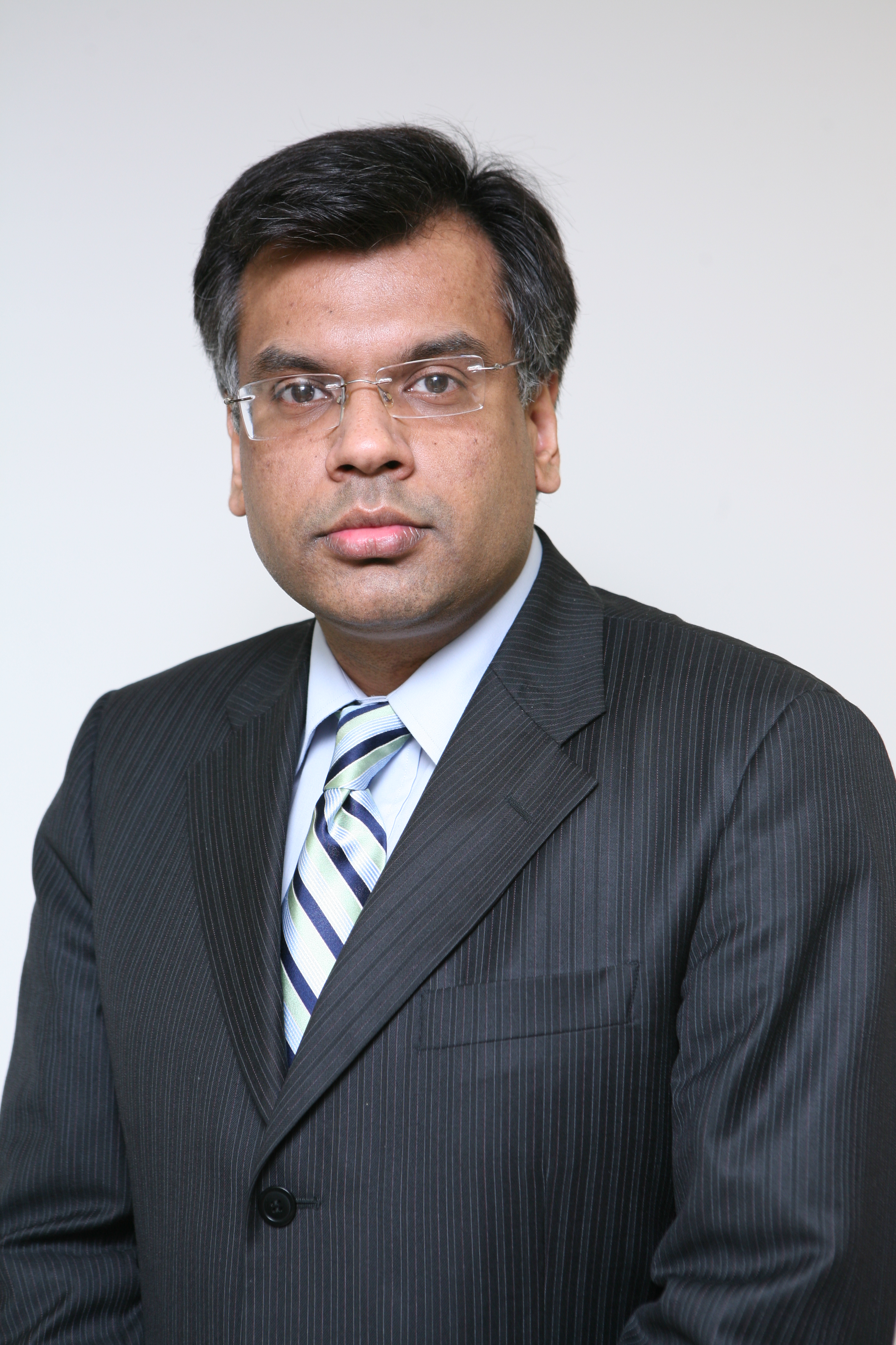 CEO of New Ventures at RIL